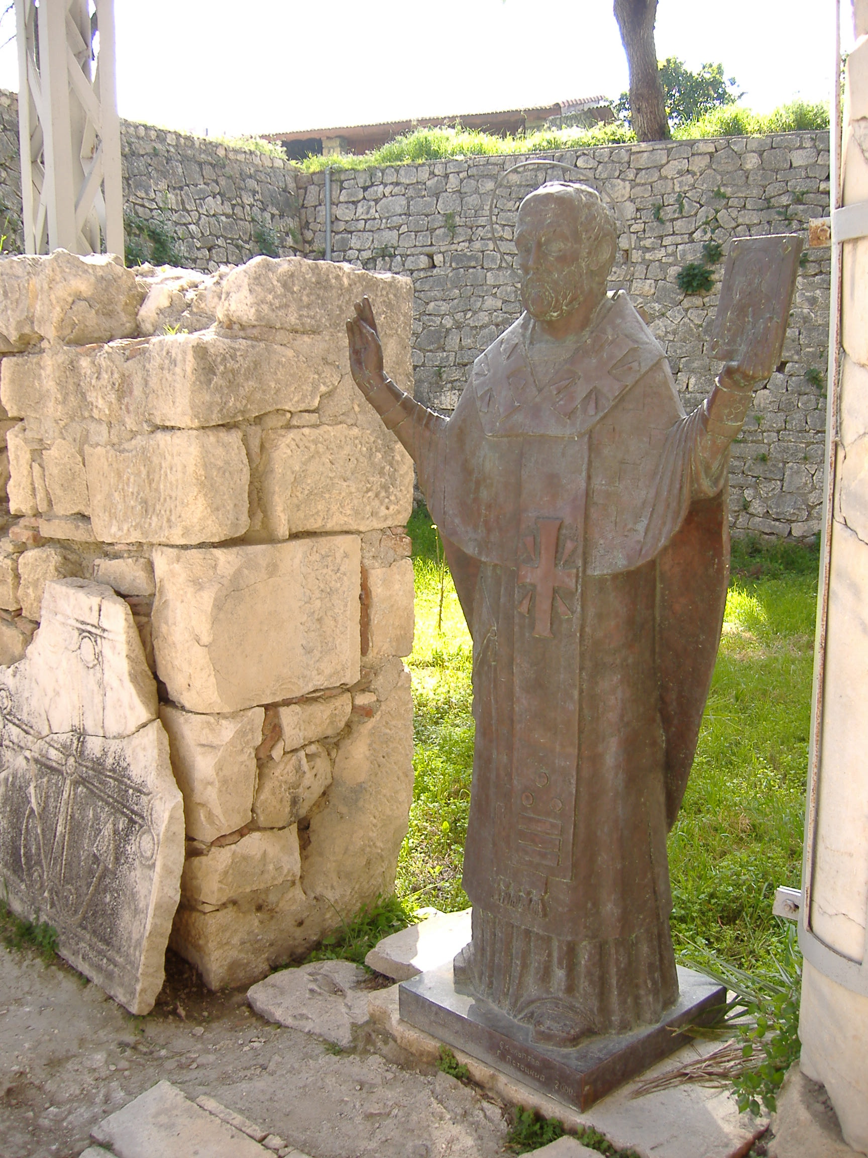 Saint Nicholas sculpture in Demre (Turkey)